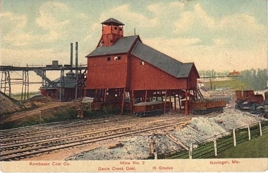 Rombauer Coal Mine near Novinger, Missouri USA. Turn-of-the-20th Century postcard photo